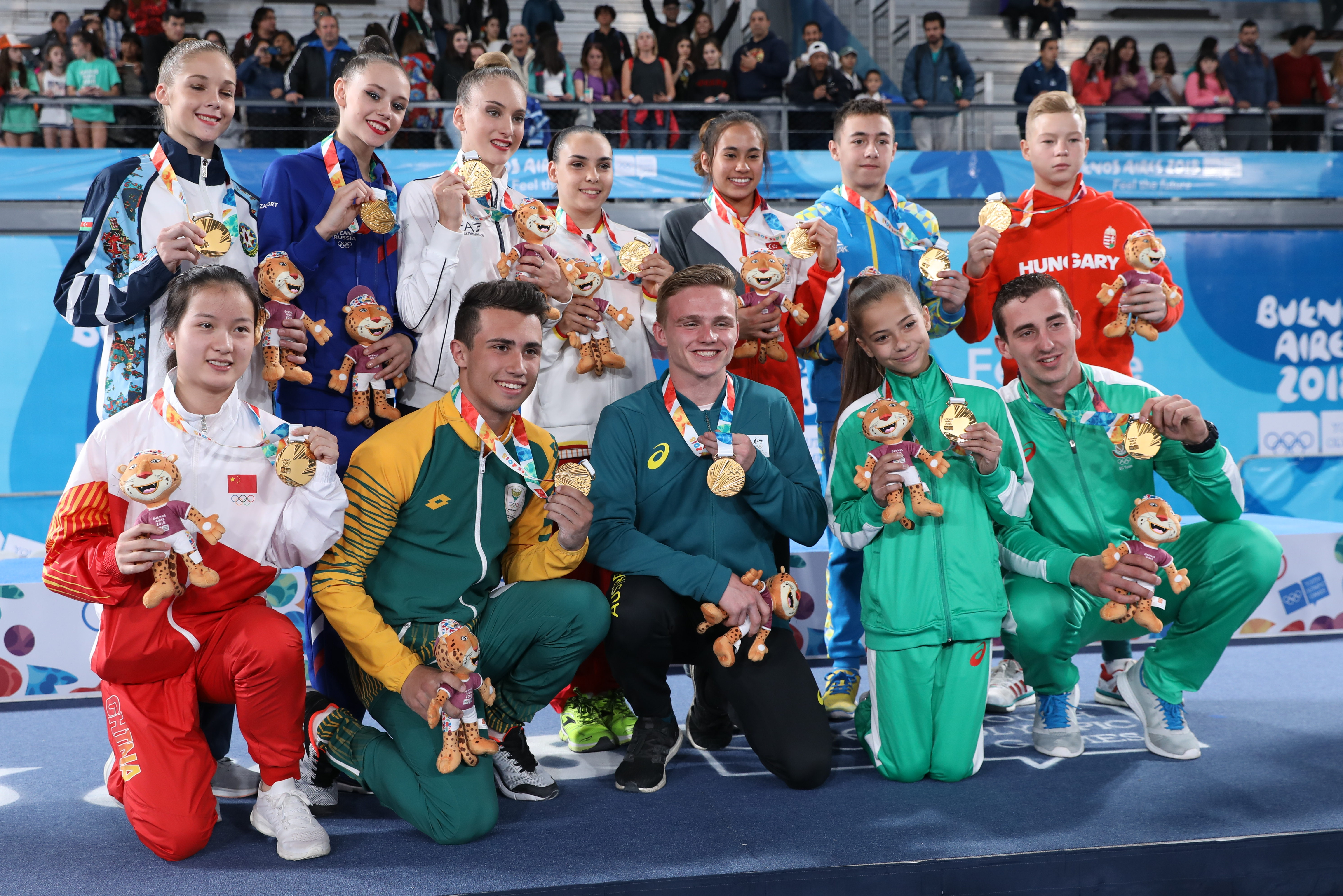 Gymnastics mixed multi-discipline team competition: Victory ceremony